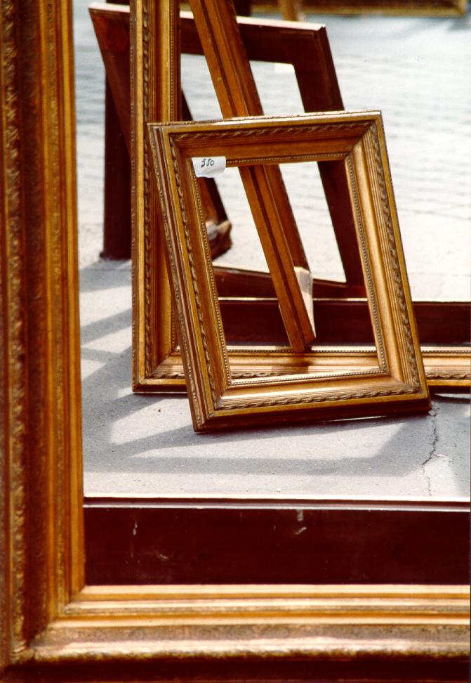 Wooden picture frames